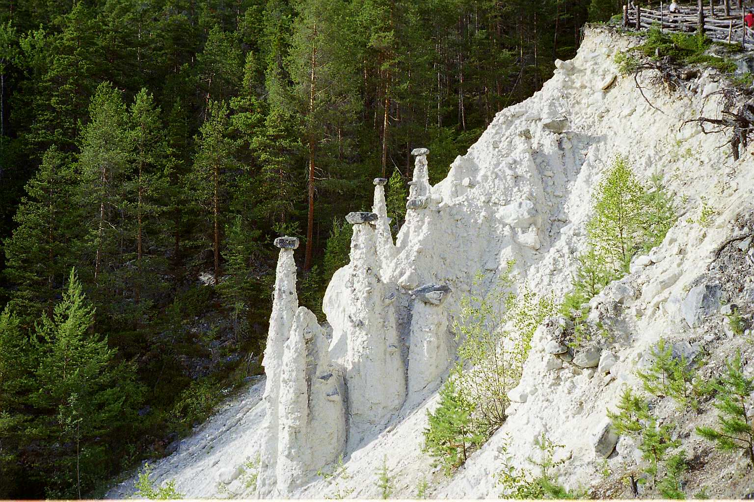 Soil pyramids near Sinclairstøtten 'Kvitskriuprestene' - Sel municipality (Oppland, Norway)